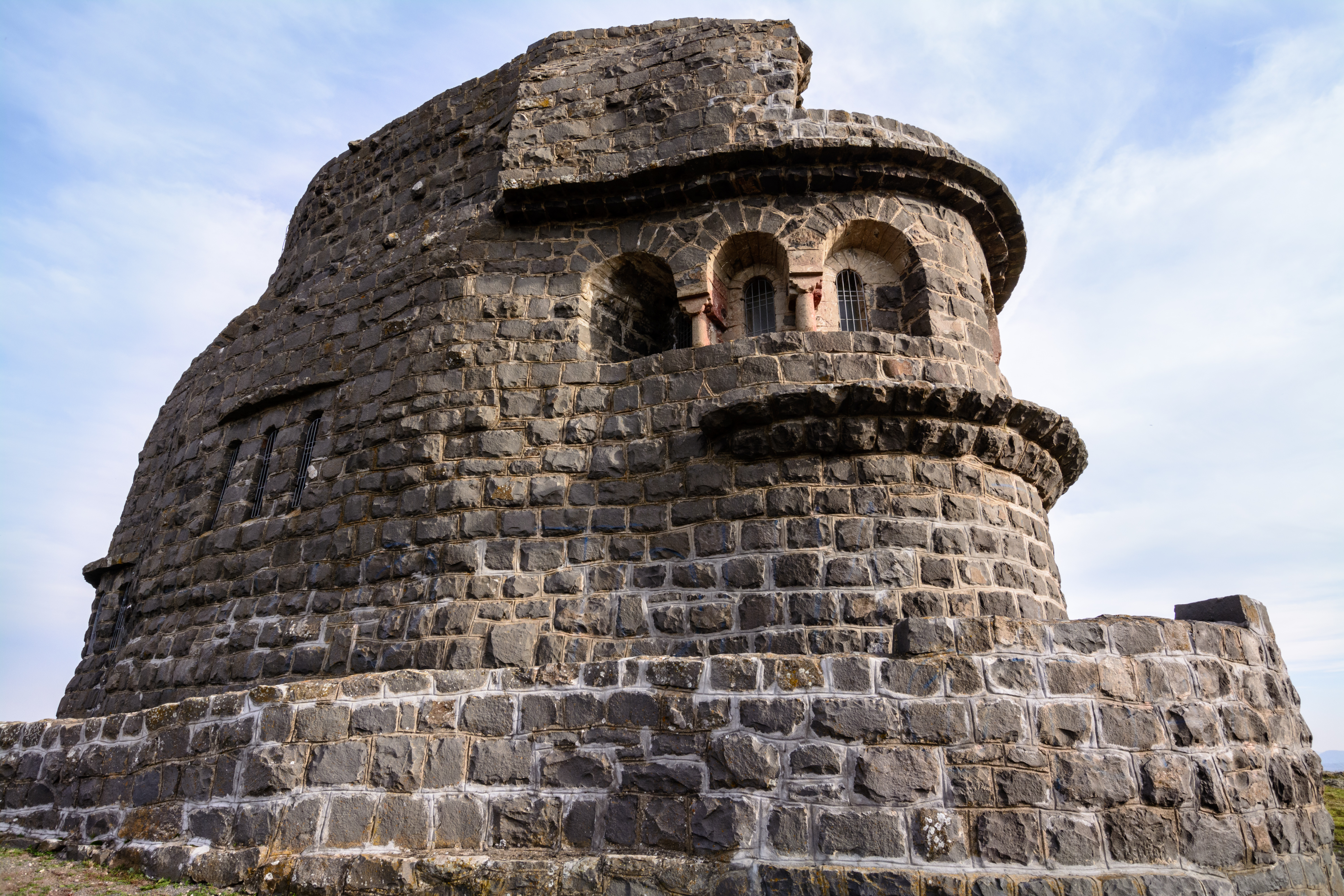 Monument ossuary of the fallen soldiers of the Balkan war 1912 (Zebrnjak)